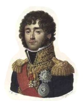 Official portrait of Horace Sébastiani.